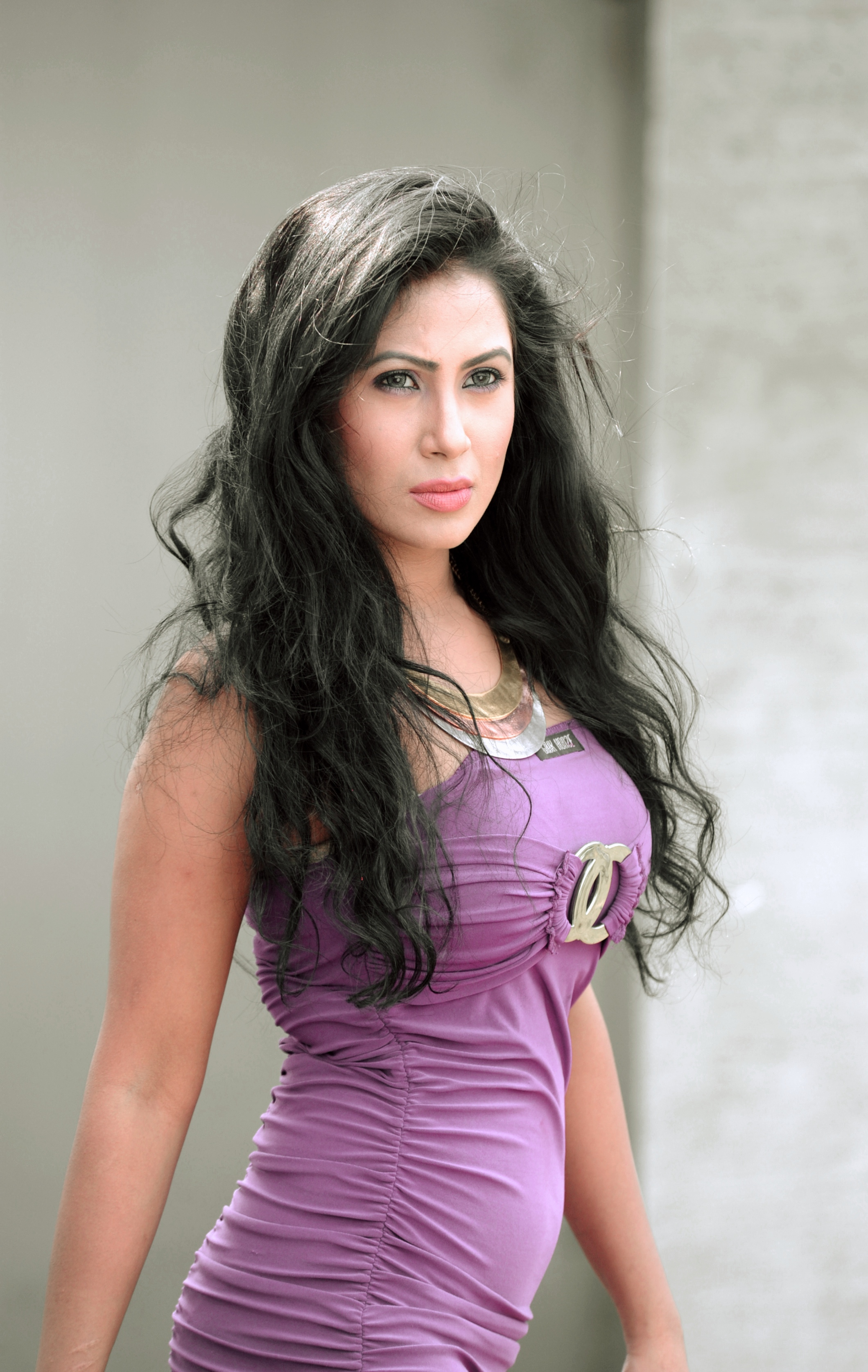 Alisha Pradhan at the photo-shoot of Shokaler newspaper